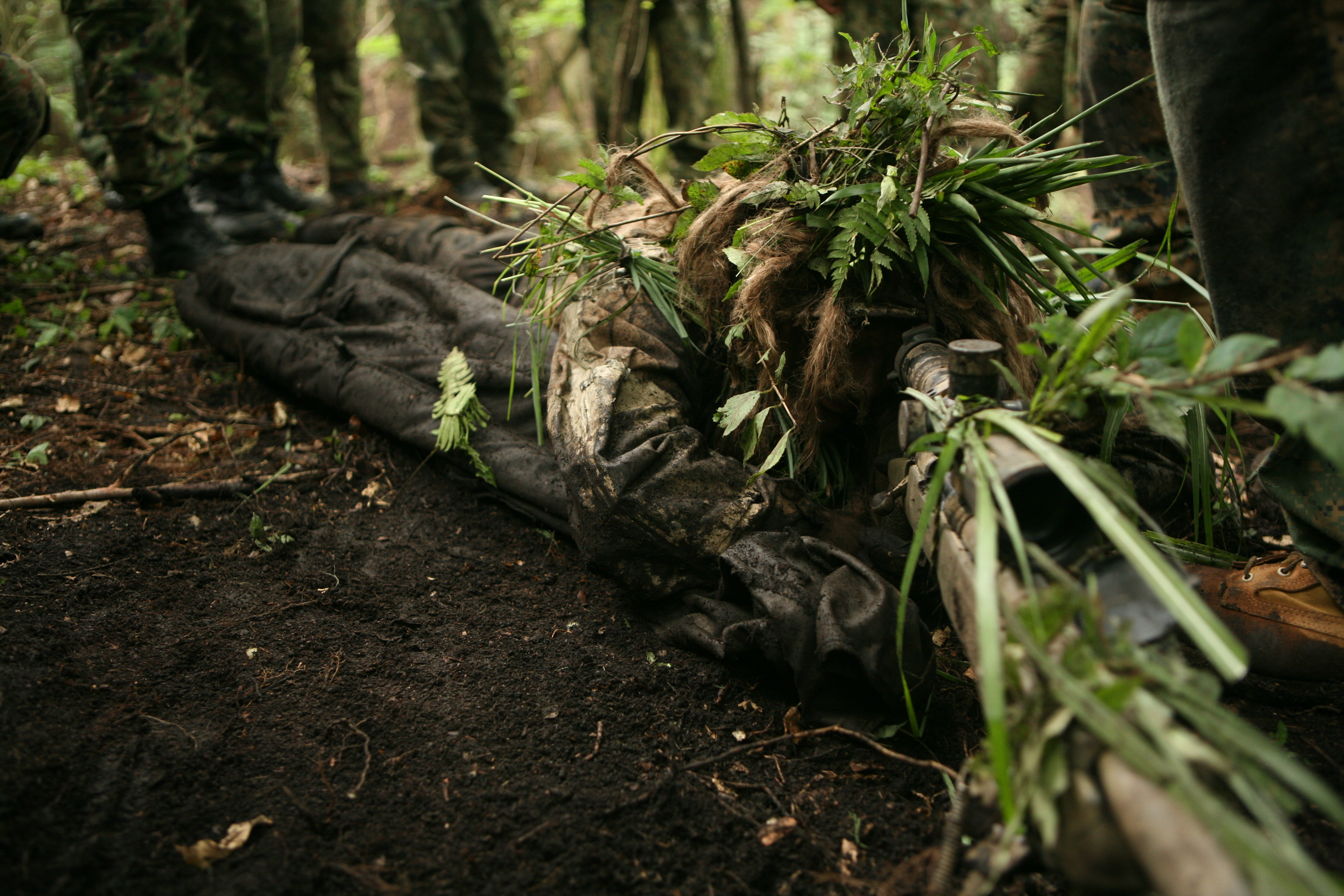 Cpl. Nikola K. Kondovski lays in his final firing position during Exercise Forest Light 12-01 at the Hijudai Maneuver Area, Oita prefecture, Japan Aug. 21. Blending in with nature is vital to executing missions in every terrain. Forest Light is a semiannual bilateral training exercise with the Japan Ground Self-Defense Force designed to enhance military partnership, strengthen regional security agreements and improve individual and unit-level skills. Kondovski is a machine gunner with Scout Sniper Platoon, 2nd Battalion, 3rd Marine Regiment, 3rd Marine Division, III Marine Expeditionary Force. Photo by U.S. Marine Lance Cpl. Jose D. Lujano III Marine Expeditionary Force / Marine Corps Installations Pacific Date Taken:08.21.2012 Location:OITA, JP Read more